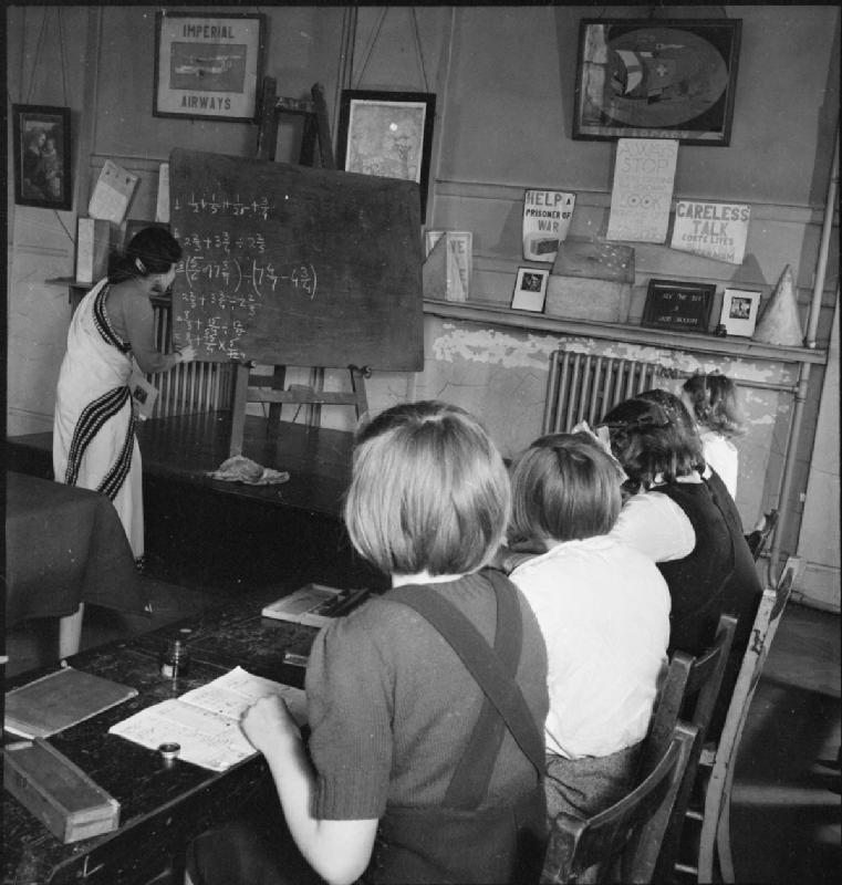 War Comes To School- Life at Peckham Central School, London, England, 1943 Children in Form 1 at Peckham Central School listen to teacher Miss Sengoupta, from India, as she gives them a lesson in mathematics. Miss Sengoupta has written a number of sums on the blackboard. Various hand-drawn posters can be seen around the room, including one advising against careless talk. According to the original caption, Miss Sengoupta has been teaching at the school for about a month, and today her sari is pink.